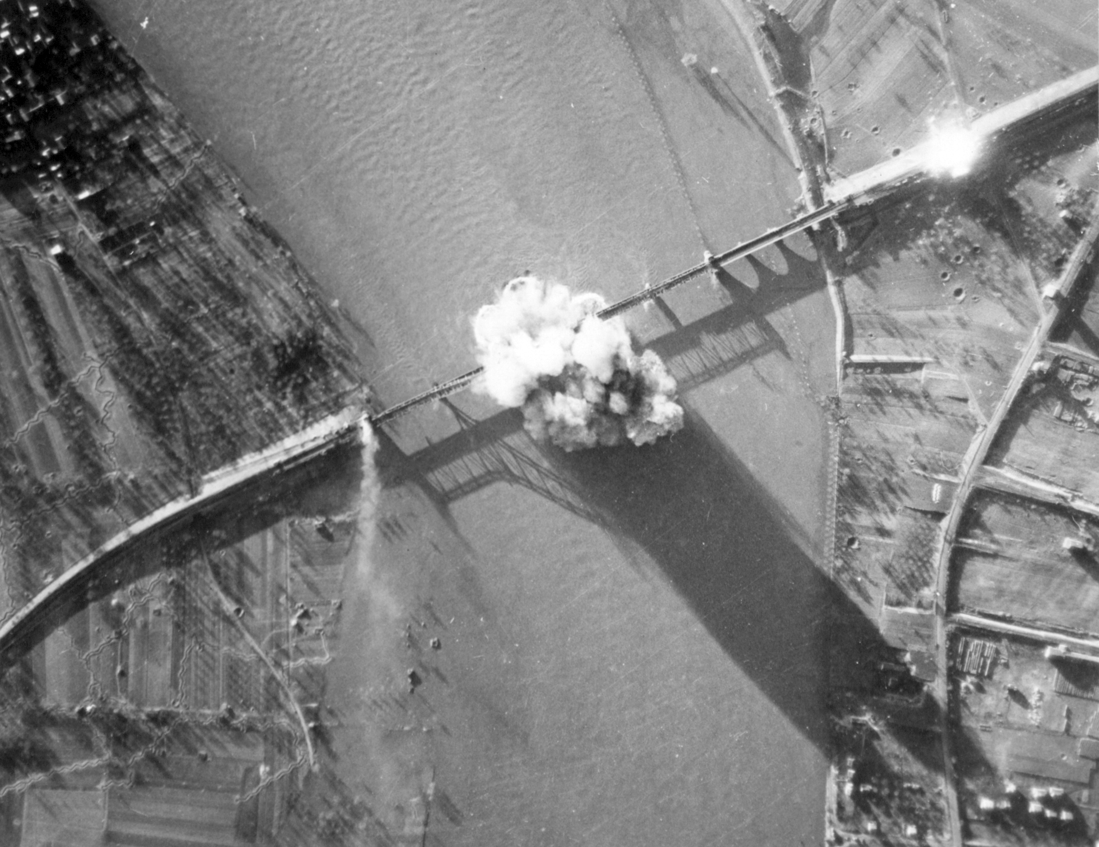 US-Air raid on Kronprinz-Wilhelm-Brücke nearby Urmitz